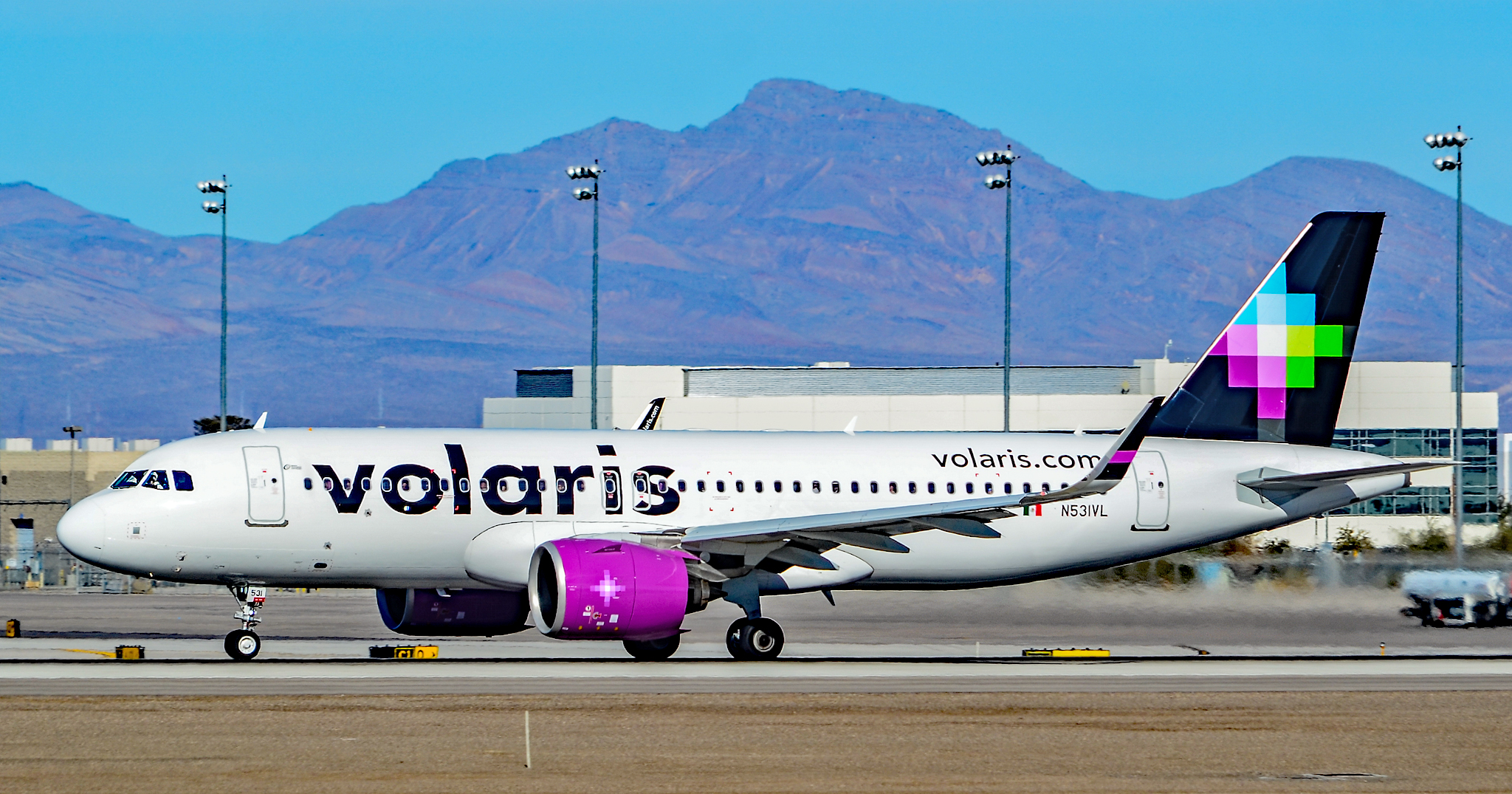 Airbus A320neo Las Vegas - McCarran International (LAS / KLAS) USA - Nevada, January 7, 2018 Photo: Tomás Del Coro